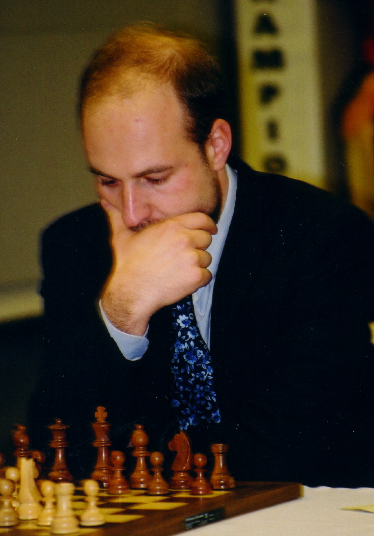 Alexander Shabalov, 2003 U.S. Chess Champion, at the 2002 U.S. Chess Championships in Seattle, Washington.